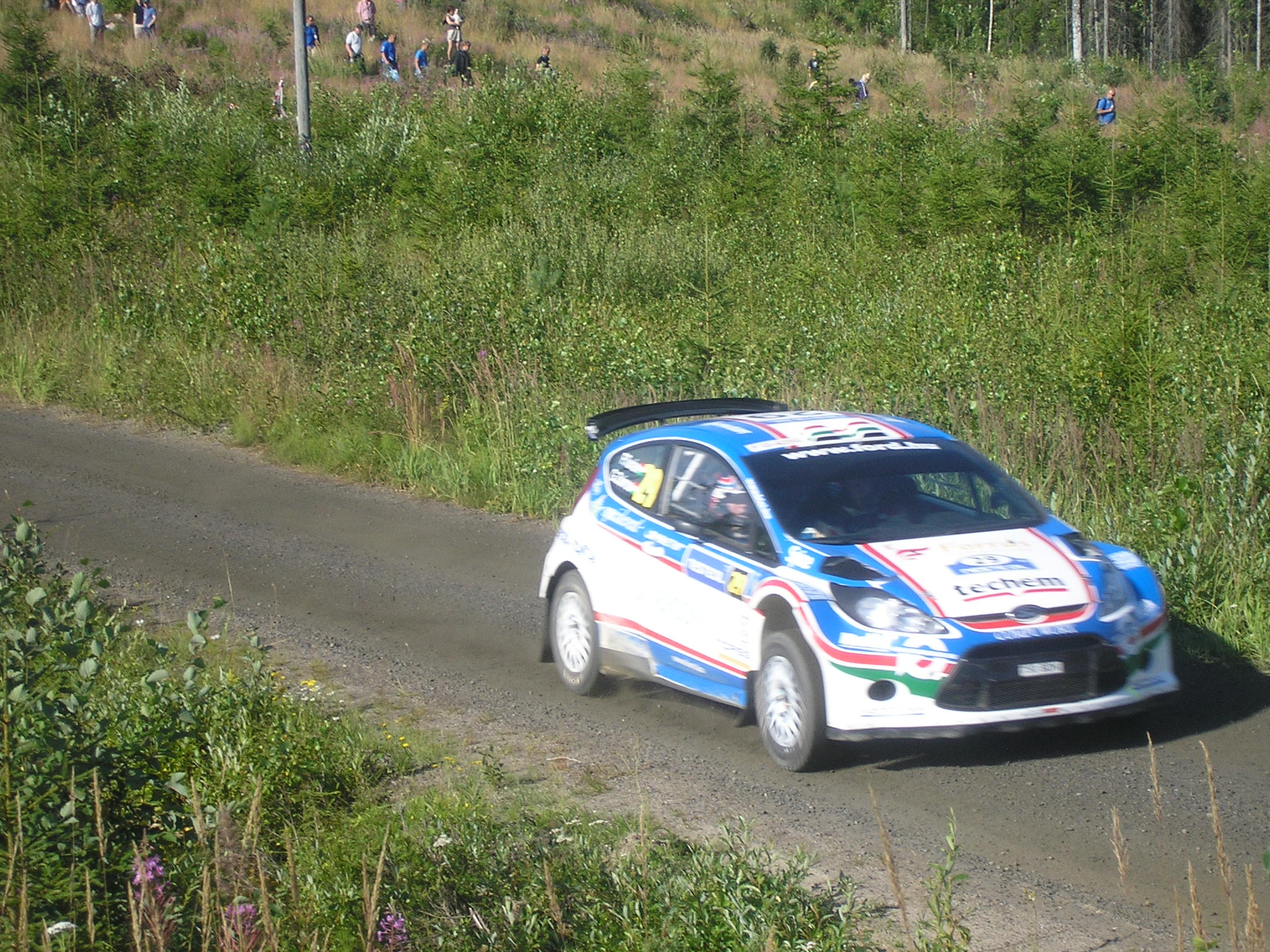 Frigyes Turán at 1st Surkee stage at 2011 Rally Finland